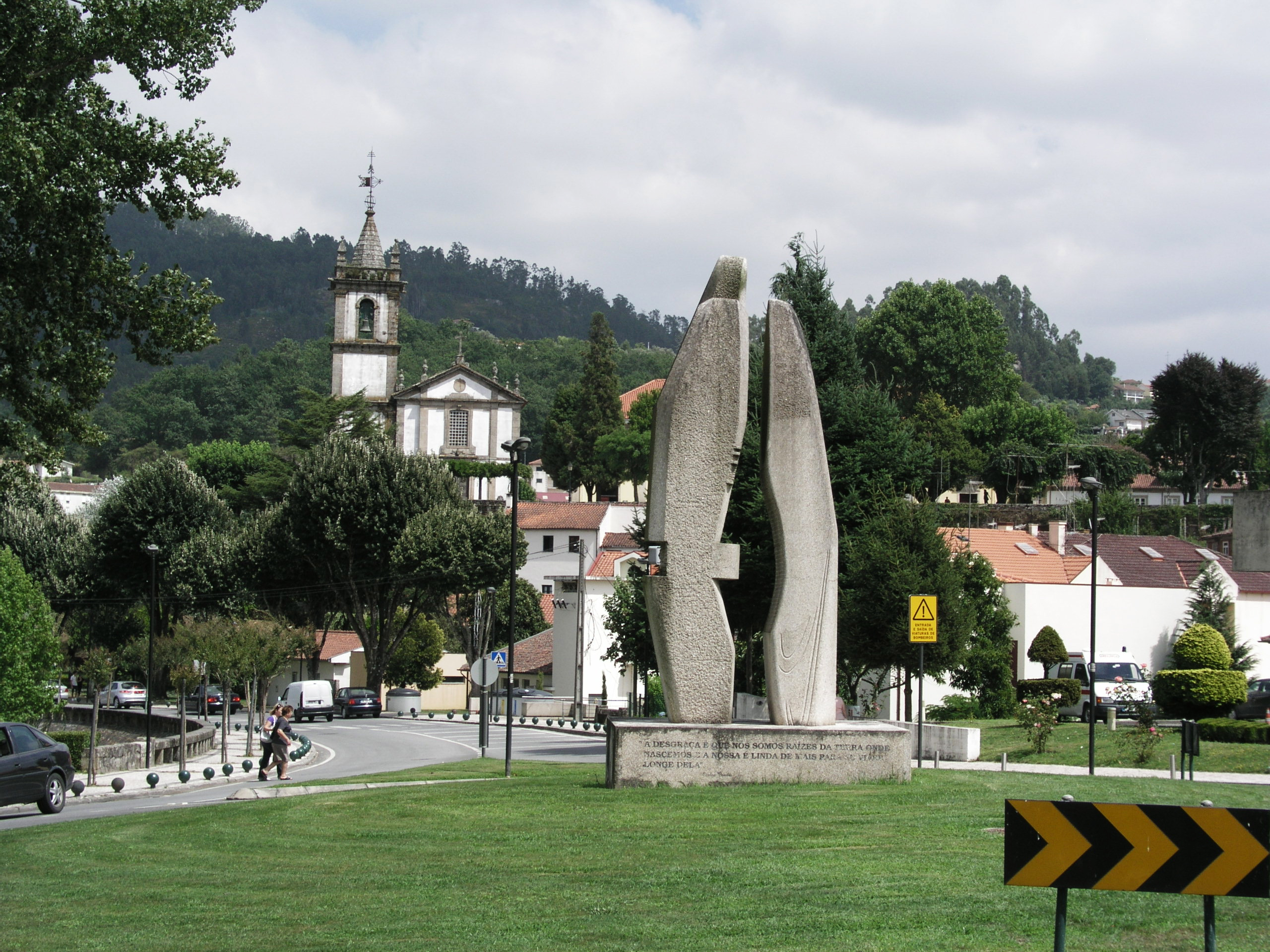 Arcos de Valdevez, Entrance view